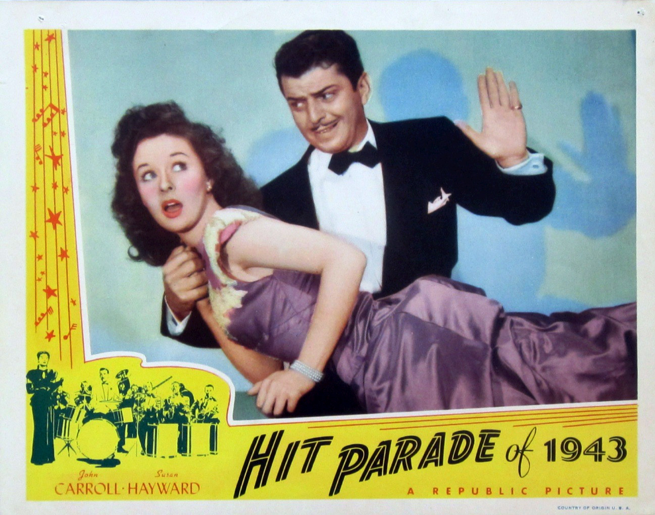 Lobby card for the American musical film Hit Parade of 1943 (1943).